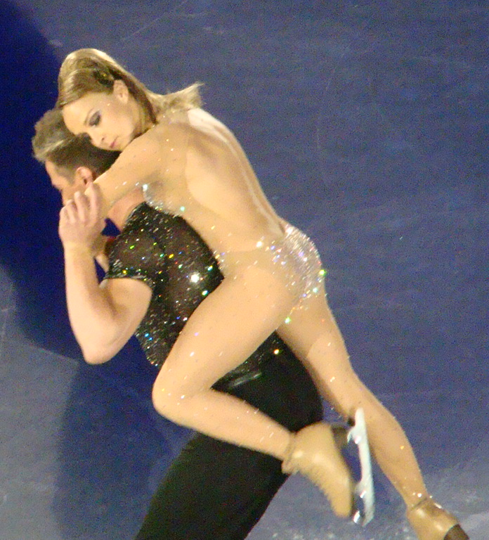 Manchester M.E.N Arena 1.30pm Sunday 1st May 2011.